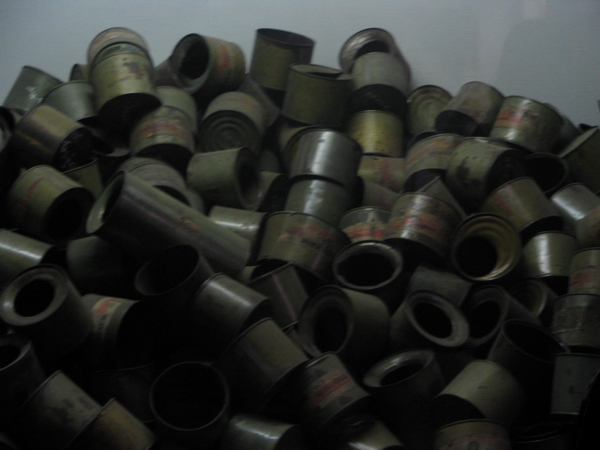 Empty cans of Zyklon B in the Auschwitz museum